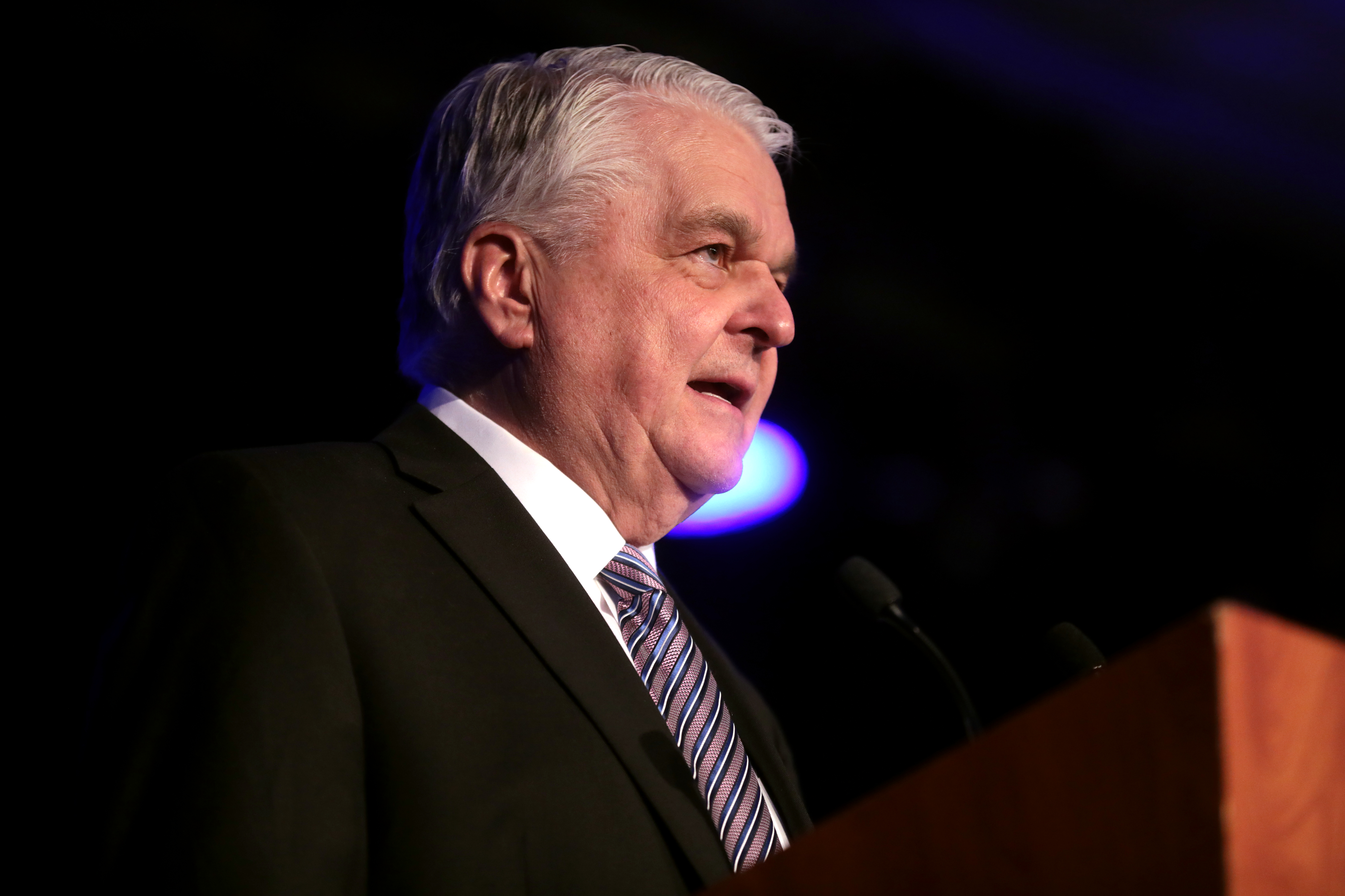 Governor Steve Sisolak speaking with attendees at the Clark County Democratic Party's 2020 Kick Off to Caucus Gala at the Tropicana Las Vegas in Las Vegas, Nevada.